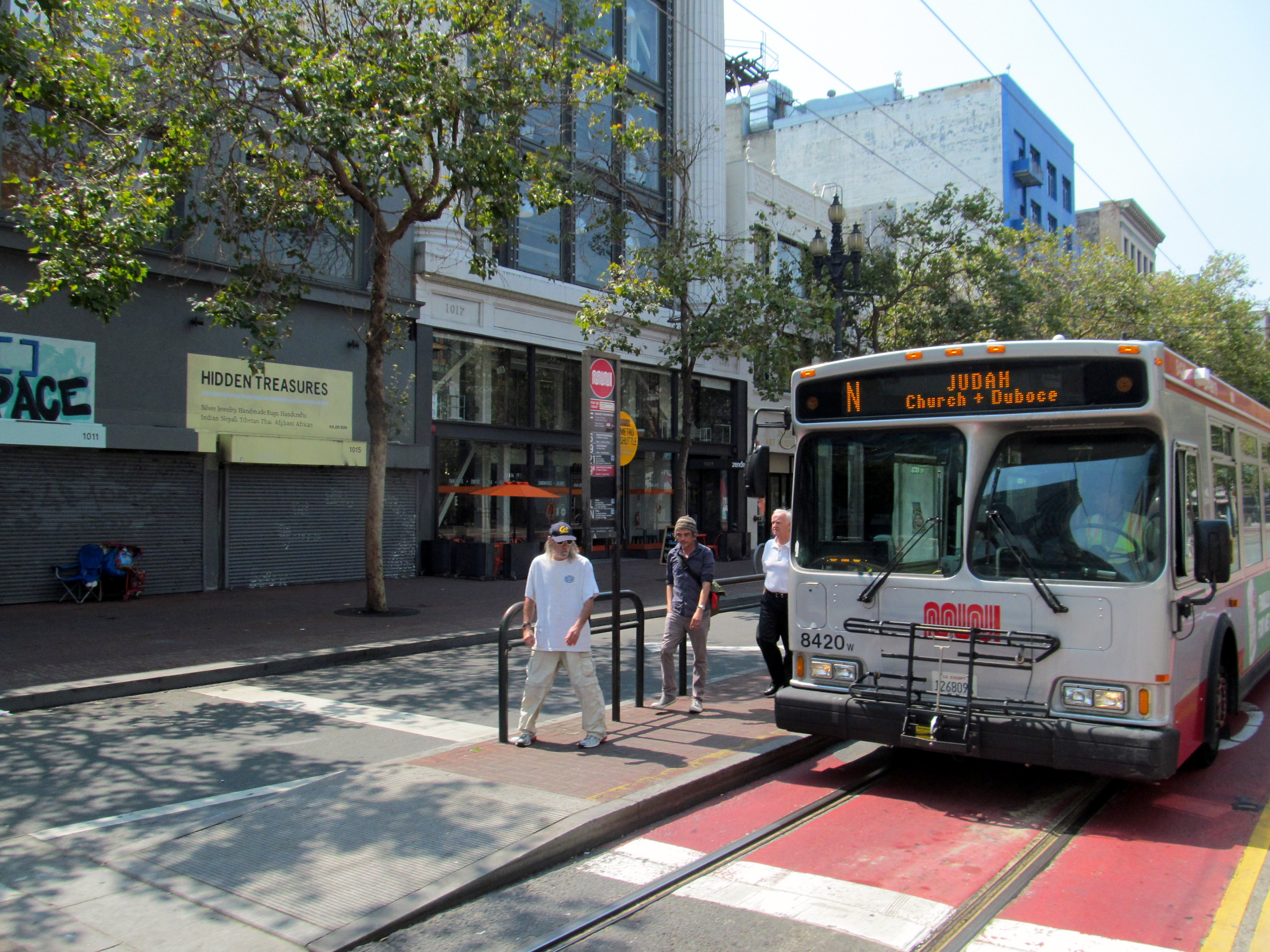 N Judah bus (used while the Market Street Subway was shut down for weekend LRV4 testing) at Market and 6th Street in August 2017